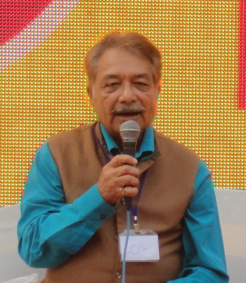 Madhu Rai, Madhu Rye